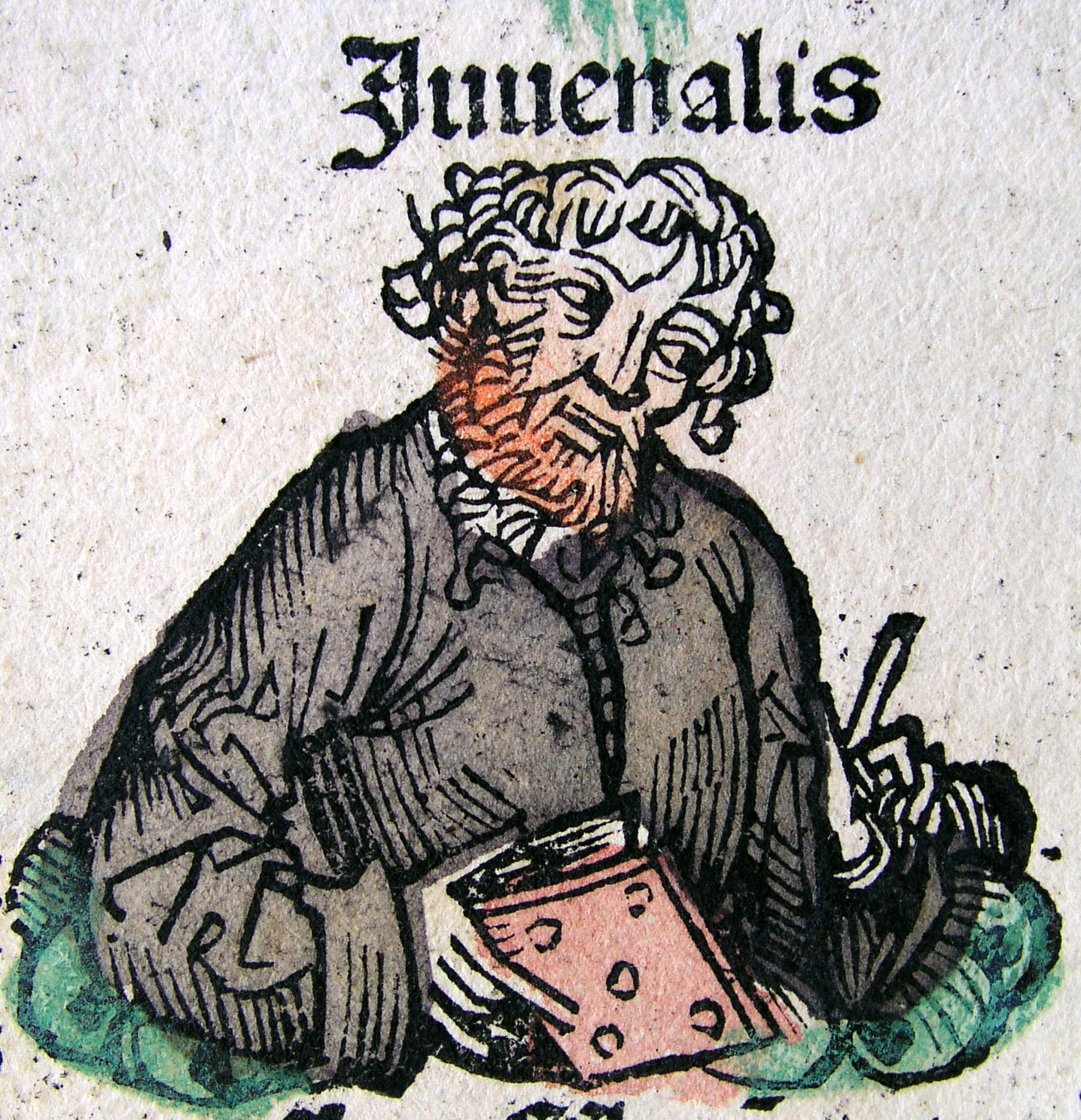 Woodcut of Juvenal from the Nuremberg Chronicle, created in the late 1400s.